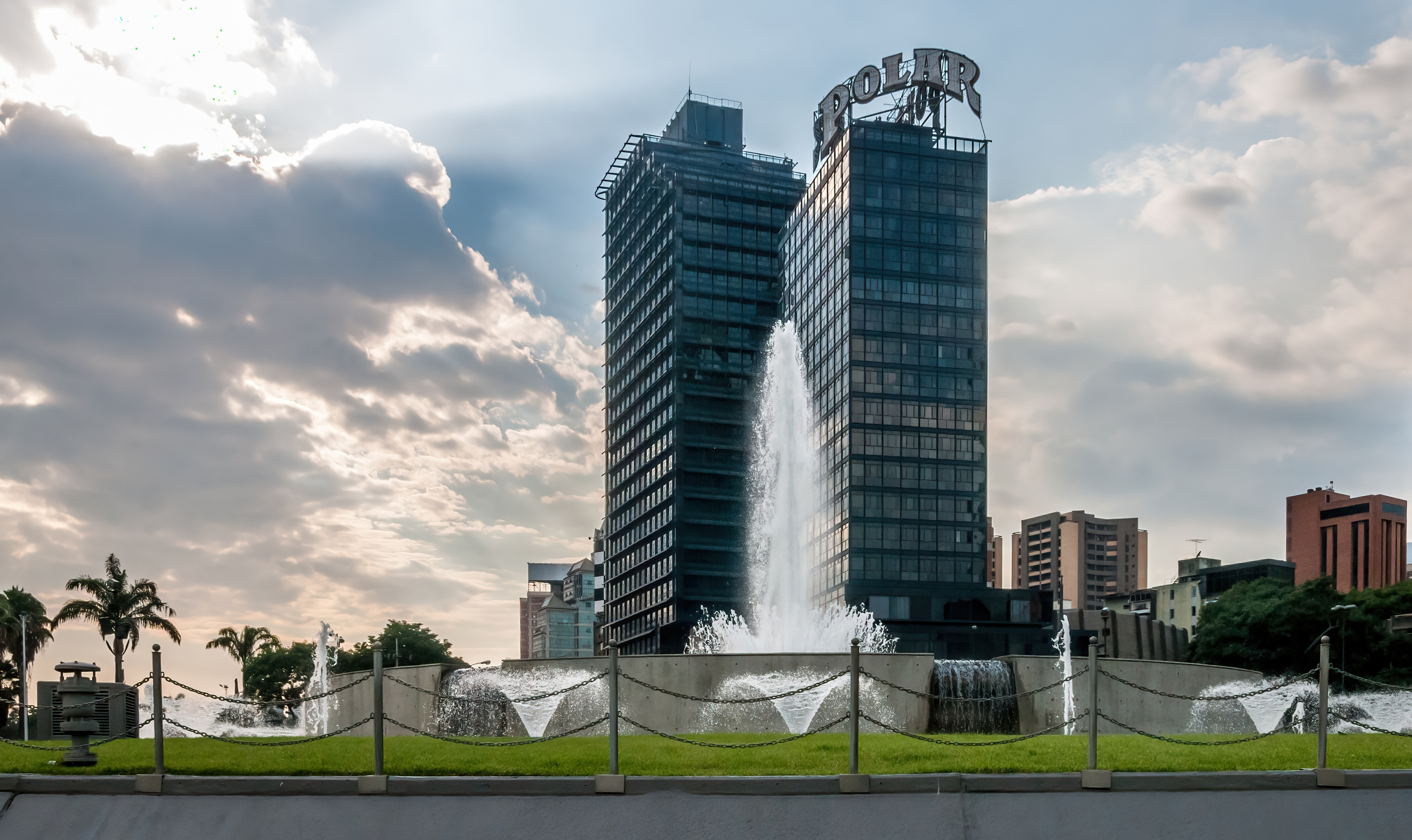 Plaza Venezuela Sunset